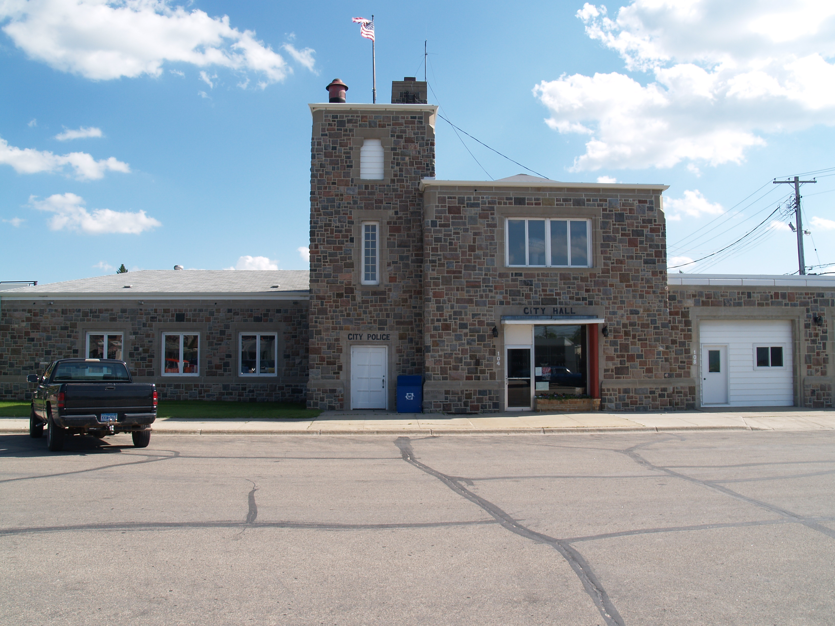 North face of the NRHP-listed Mahnomen City Hall in Mahnomen, Minnesota.